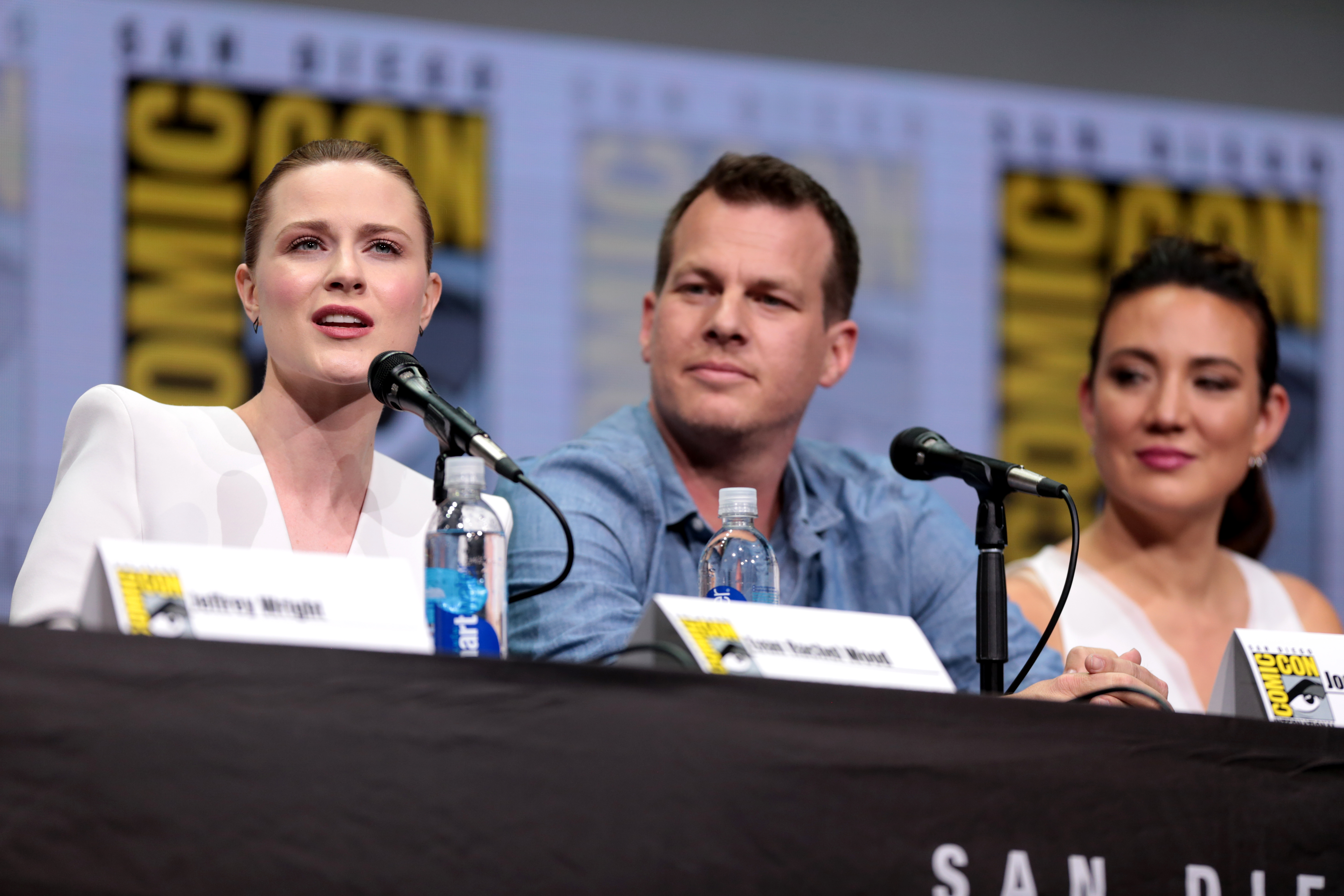 Evan Rachel Wood, Jonathan Nolan and Lisa Joy speaking at the 2017 San Diego Comic Con International, for "Westworld", at the San Diego Convention Center in San Diego, California.